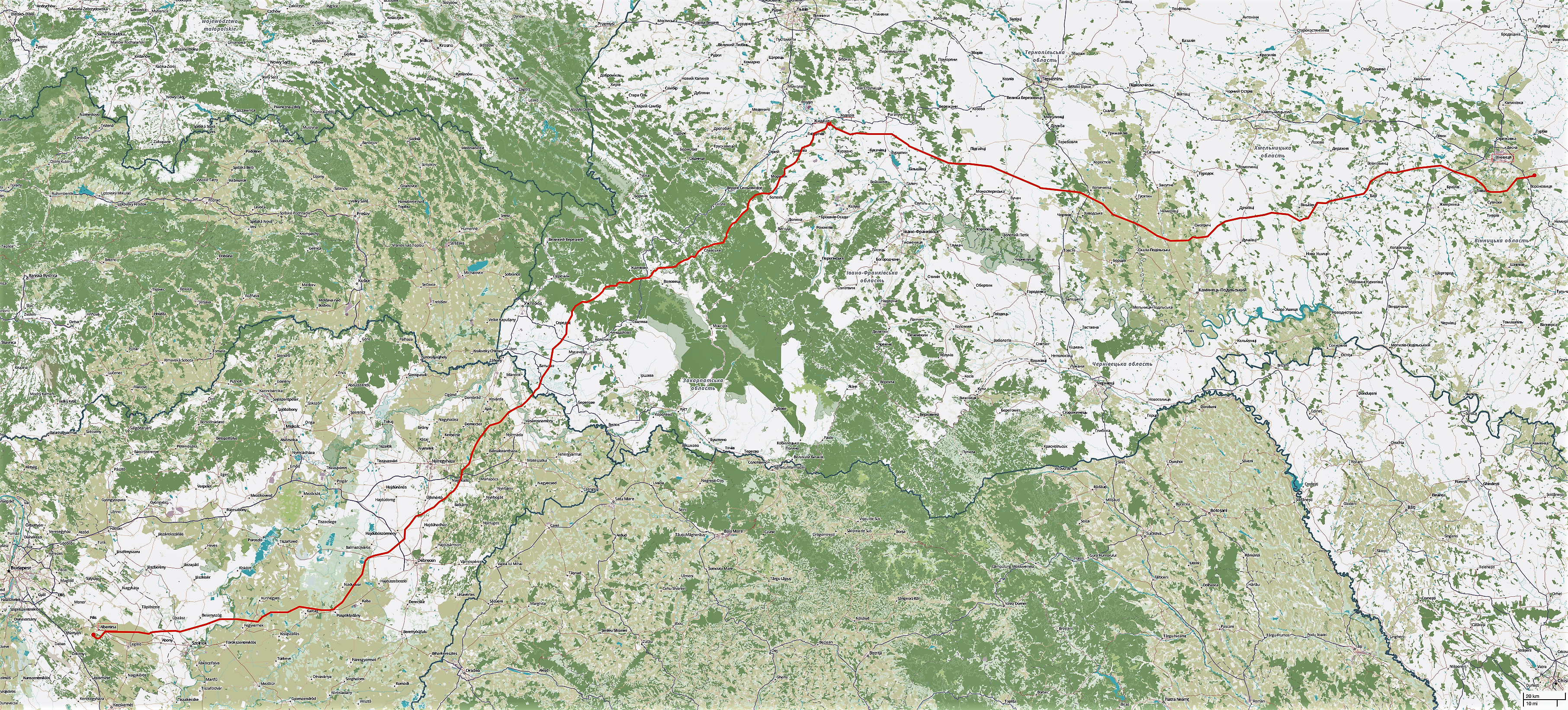 Map of the ca. 479 km long 750 kV Albertirsa–Zakhidnoukrainska–Vinnytsia power line between Hungary (left) and Ukraine (right); the three substations at the corner points of the line (left/top/right) are marked with little dots.